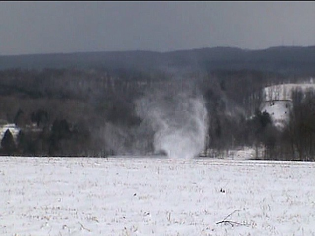 Small Snow Devil